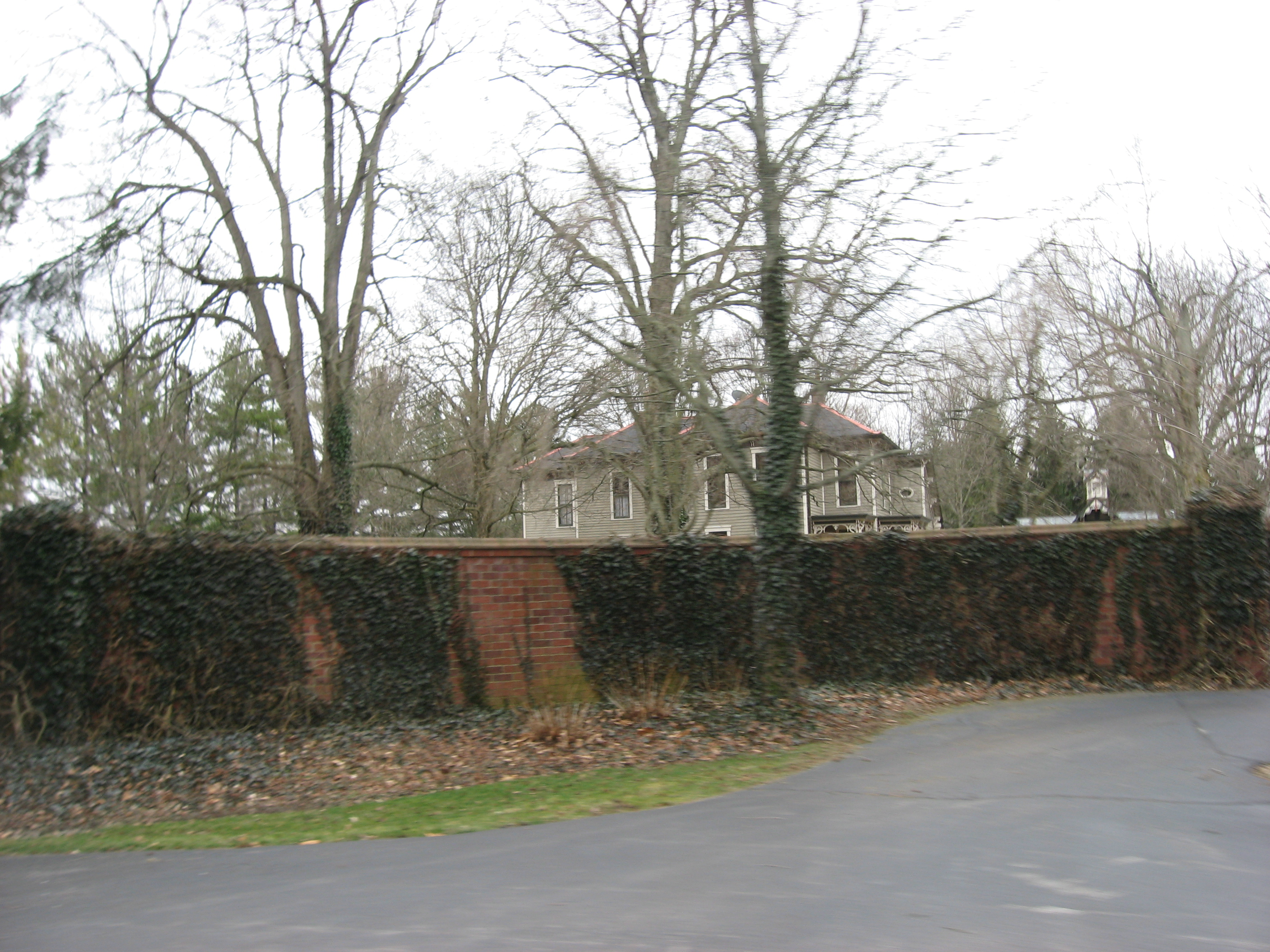 Distant view of the Micah Newby House, located at 1149 W. 116th Street in Carmel, Indiana, United States. Built in 1880, it is listed on the National Register of Historic Places.